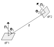 Angular coefficient